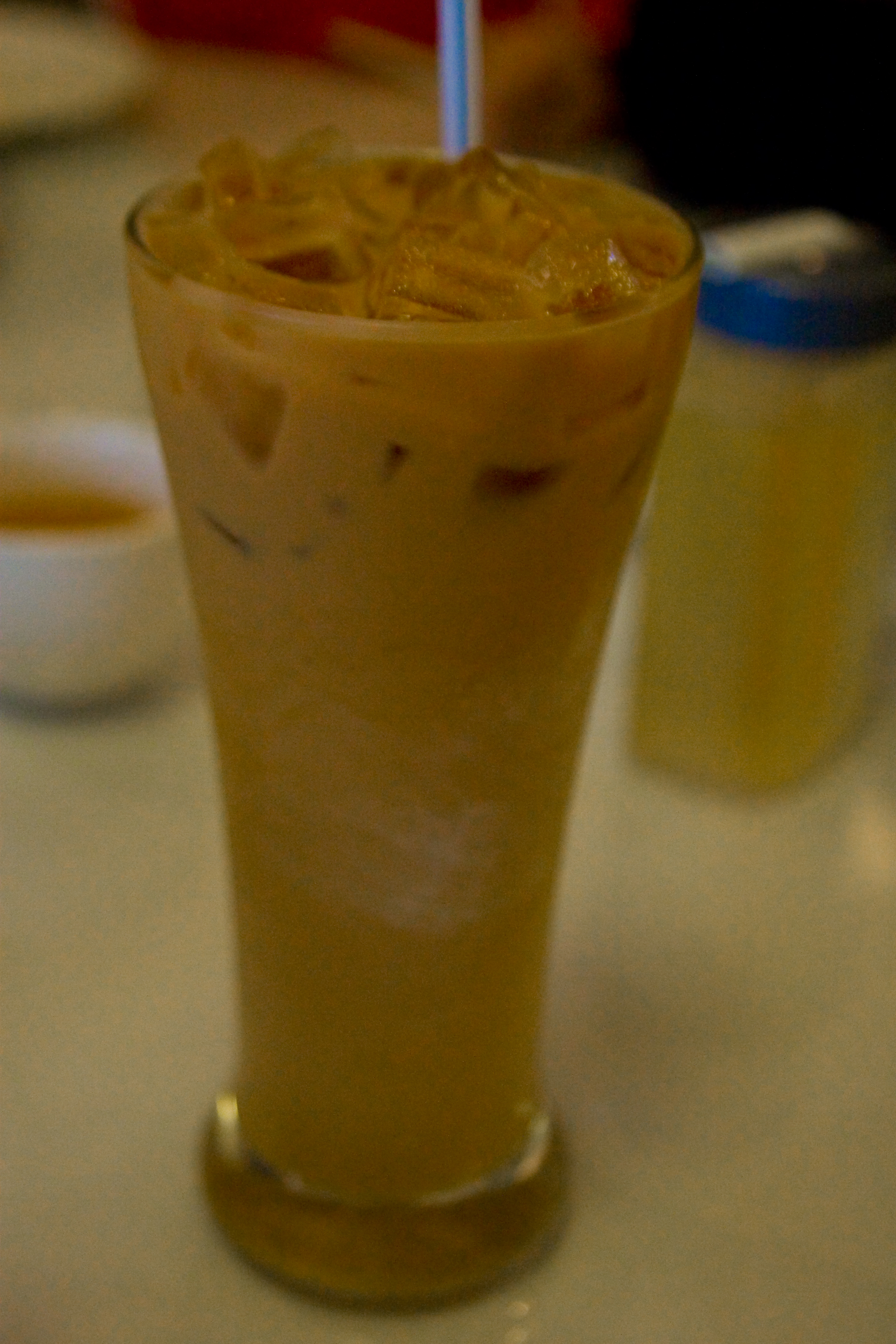 Iced milk tea in Hong Kong